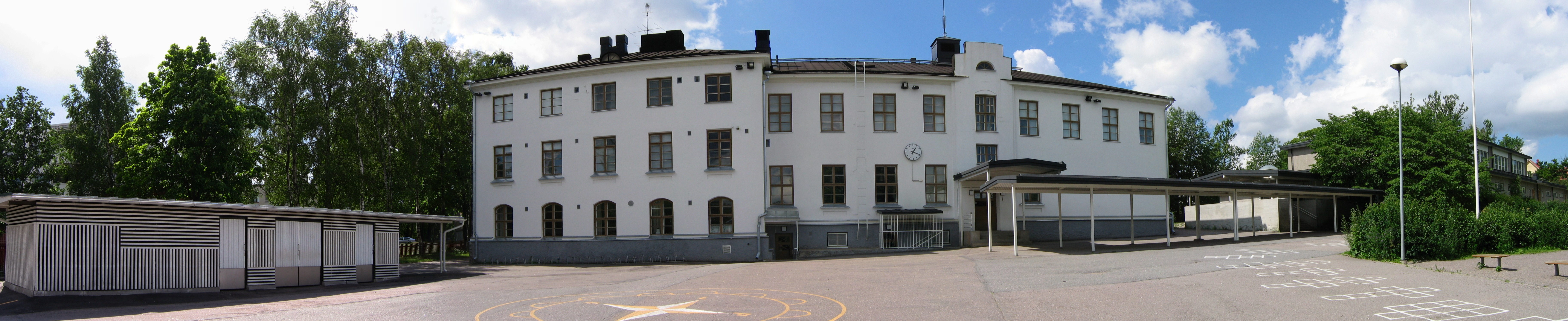 Malmin ala-aste, an elementary school in Ylä-Malmi disctrict in Helsinki, Finland.